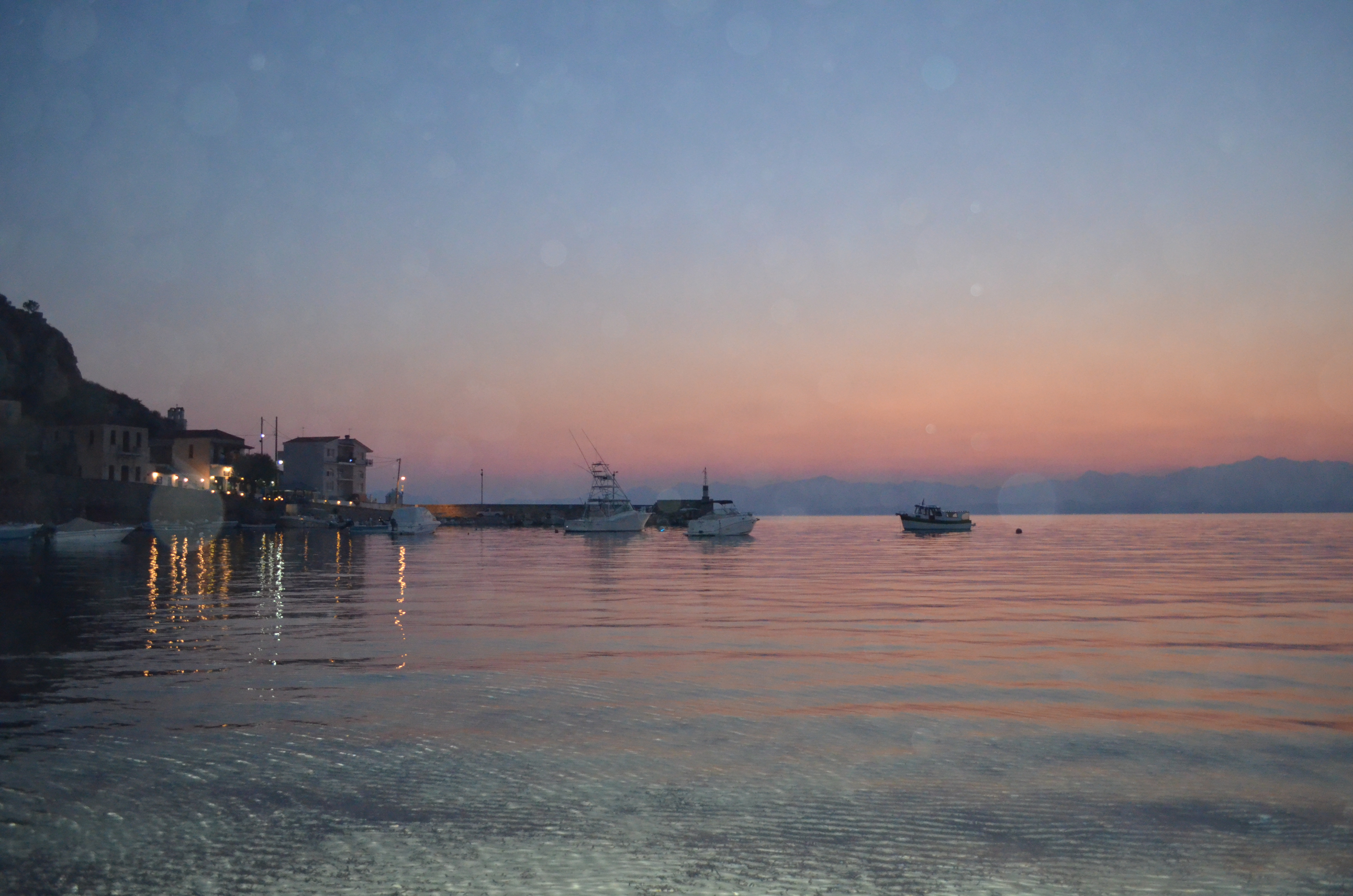 View of Elia village's beach, Lakonia, Greece